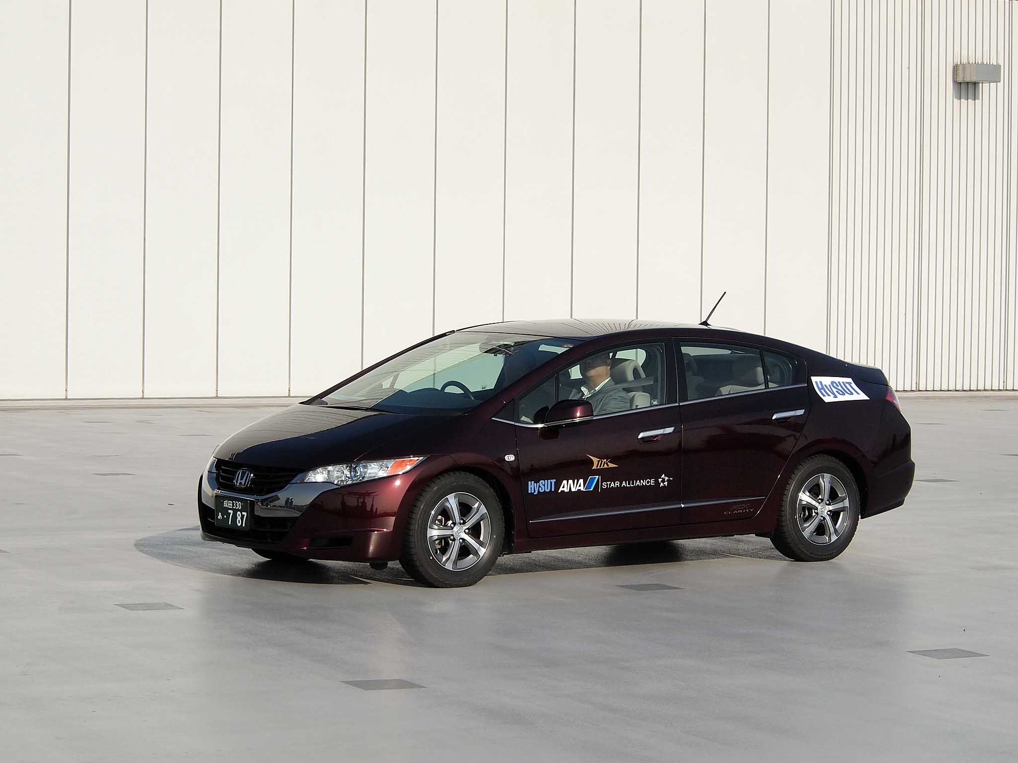 Fleet of Manzaki Kotsu, demonstrater as hire from Narita airport under HySUT. Model: Honda FCX Clarity License plate: CBR330 A-787 Place: Tokyo Big Sight, Koto Ward, Tokyo Japan